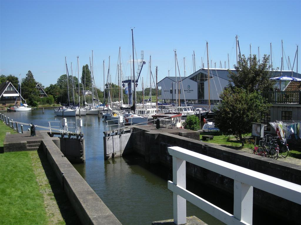 Sluis Stavoren / Canal Lock in Stavoren